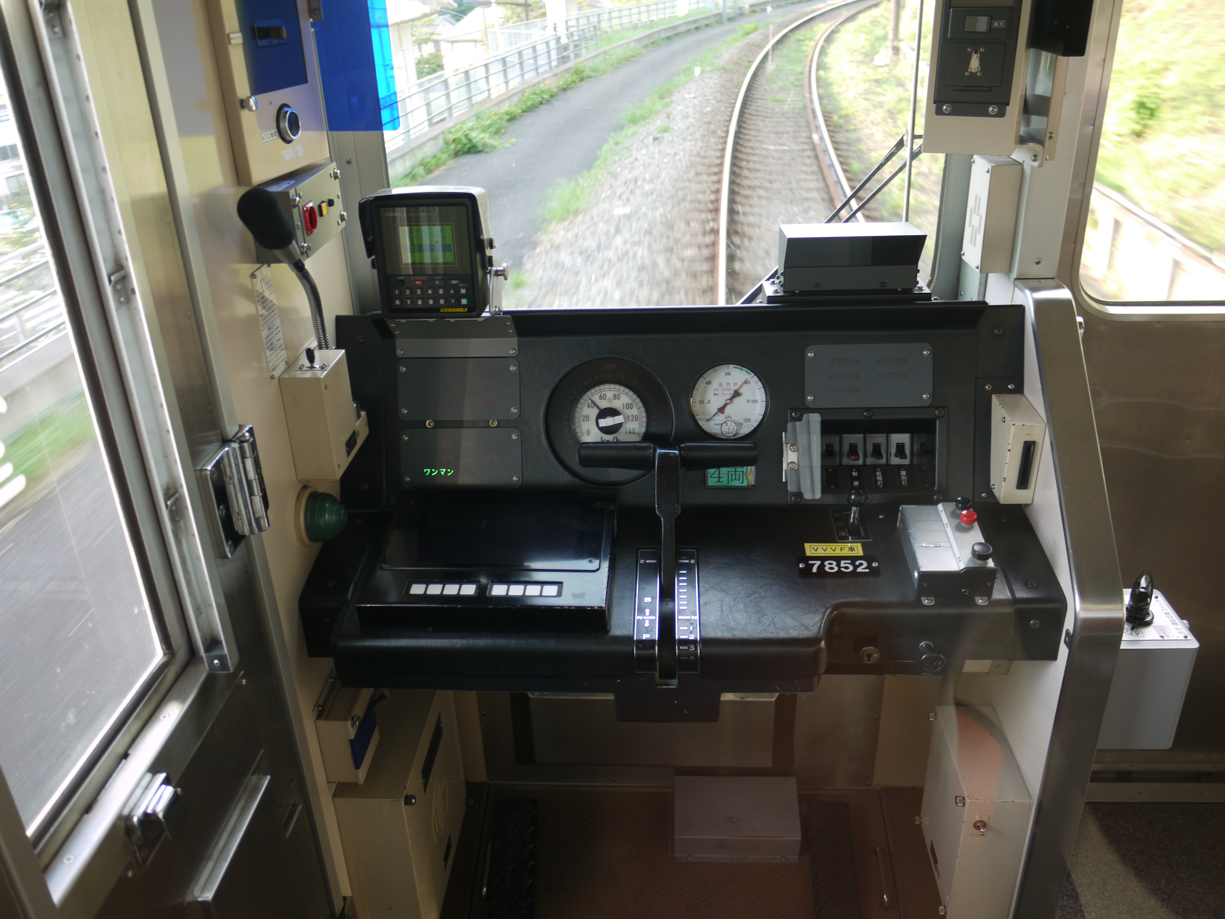 Operator cabin on Keio 7852, operating car